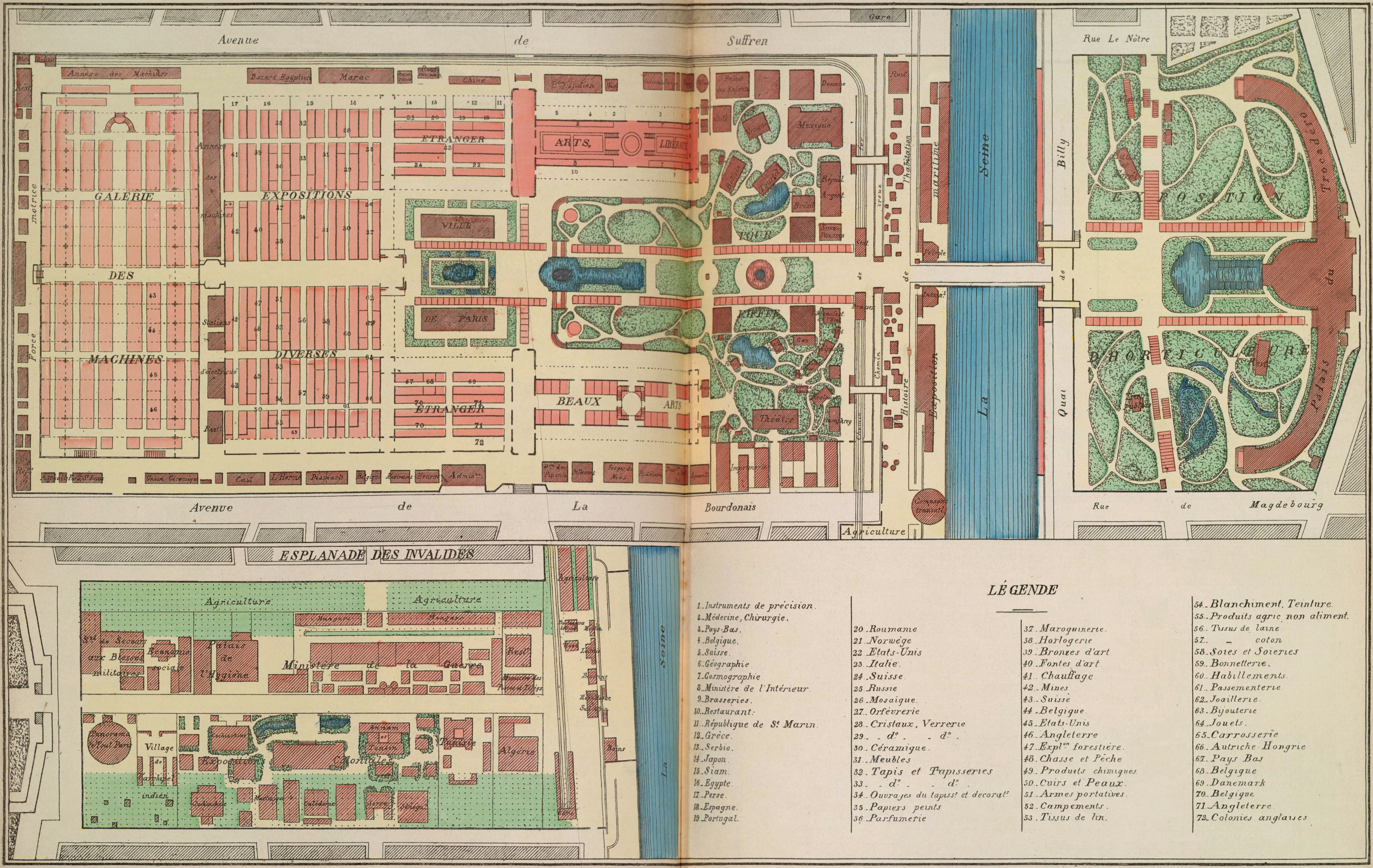 Map of the 1889 World Fair. The top image represents the Champ-de-Mars, from the Trocadéro Palace to the Galerie des machines (next to the École Militaire, which still exists today). The bottom print represents the Esplanade des Invalides, about half a mile from the Champ-de-Mars. This second site of the World Fair housed the Exposition coloniale as well as an agricultural fair.